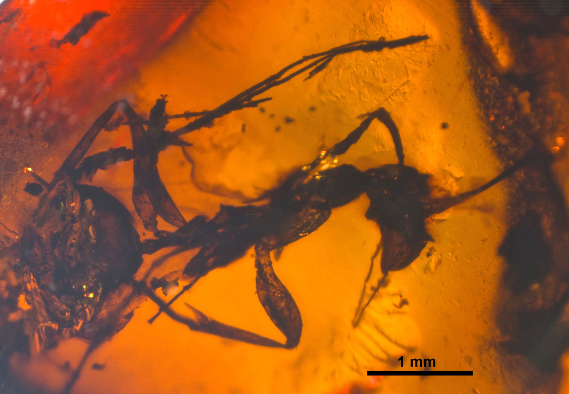 View of the Zherichinius horribilis specimen. Paleontological Institute, Moscow specimen PIN3387-37